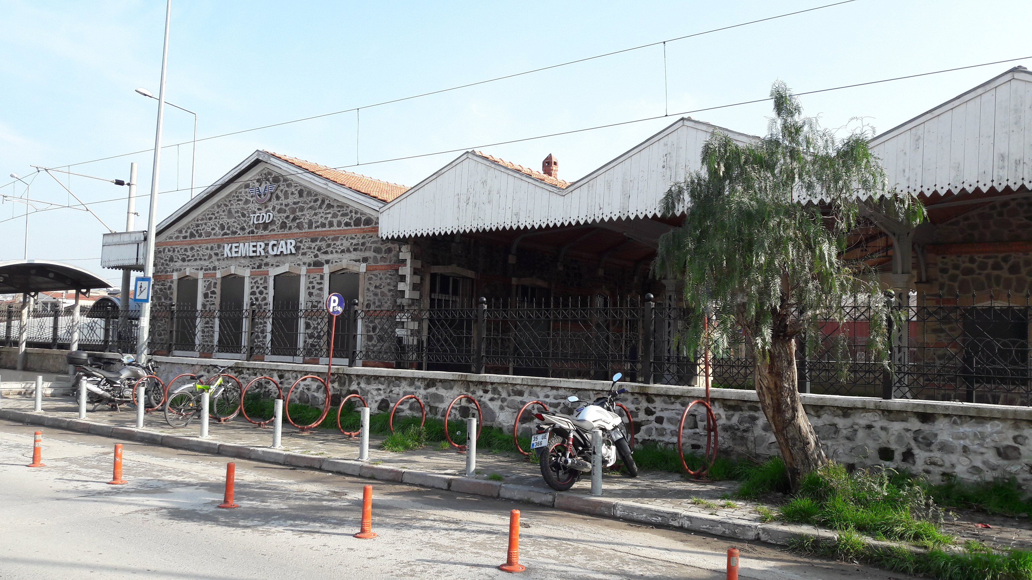 The old station building of Kemer railway station.